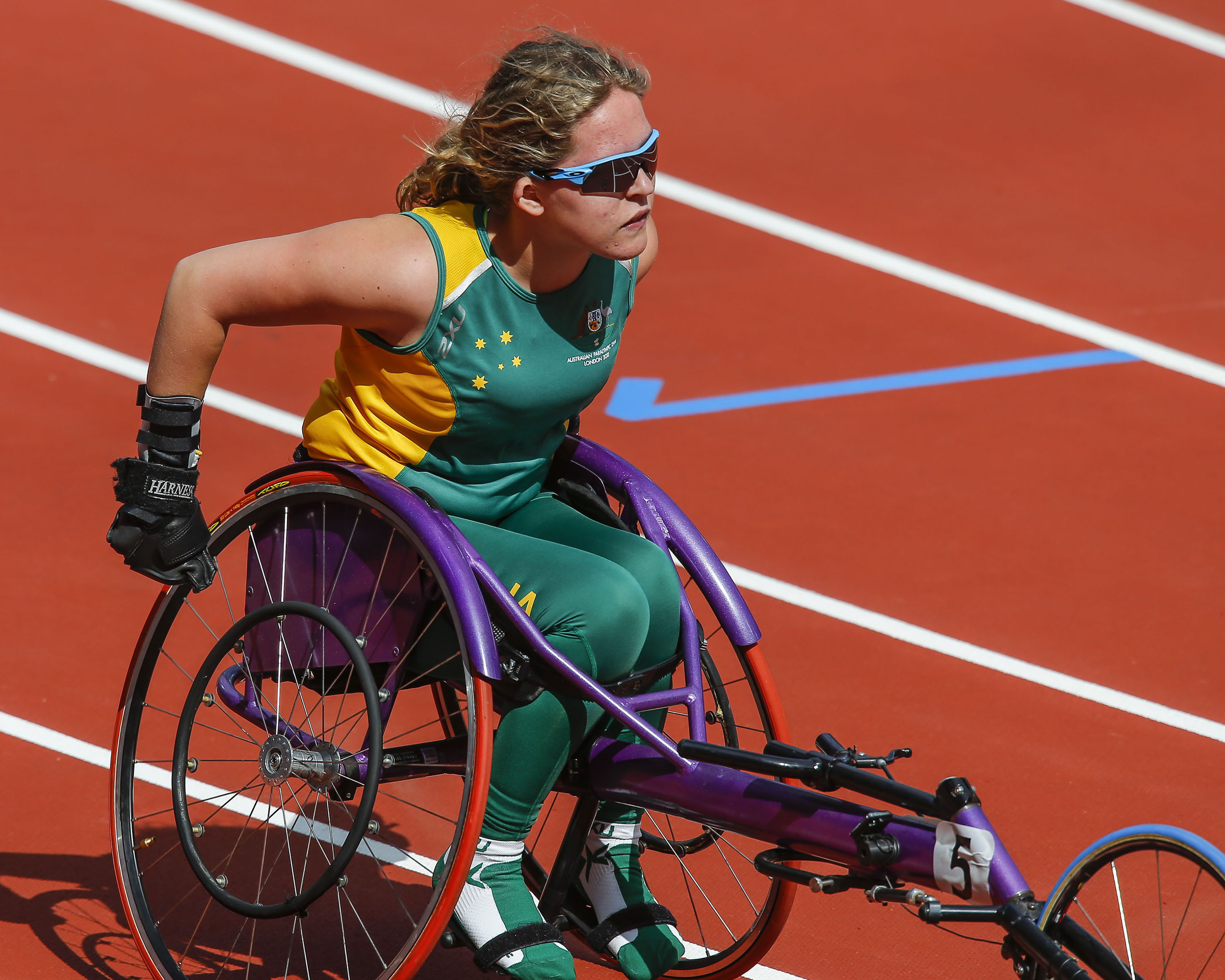 Photograph of Australian Paralympic team member Kristy Pond at the 2012 Summer Paralympic Games in London